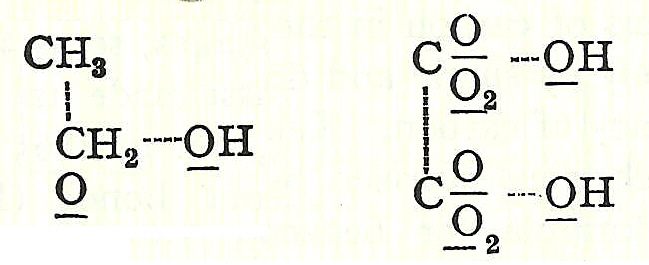 made my Archibald Scott Couper in 1858